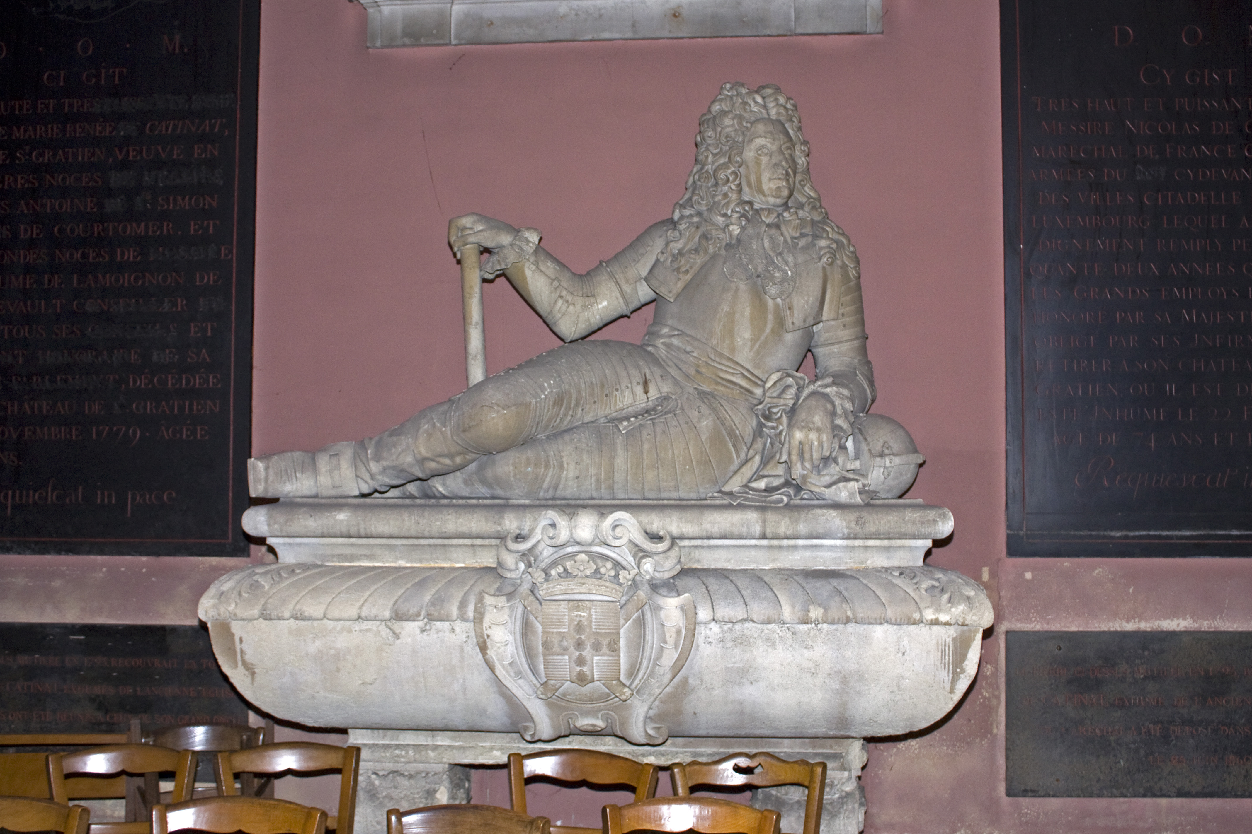 Tomb of the Marshal de Catinat .